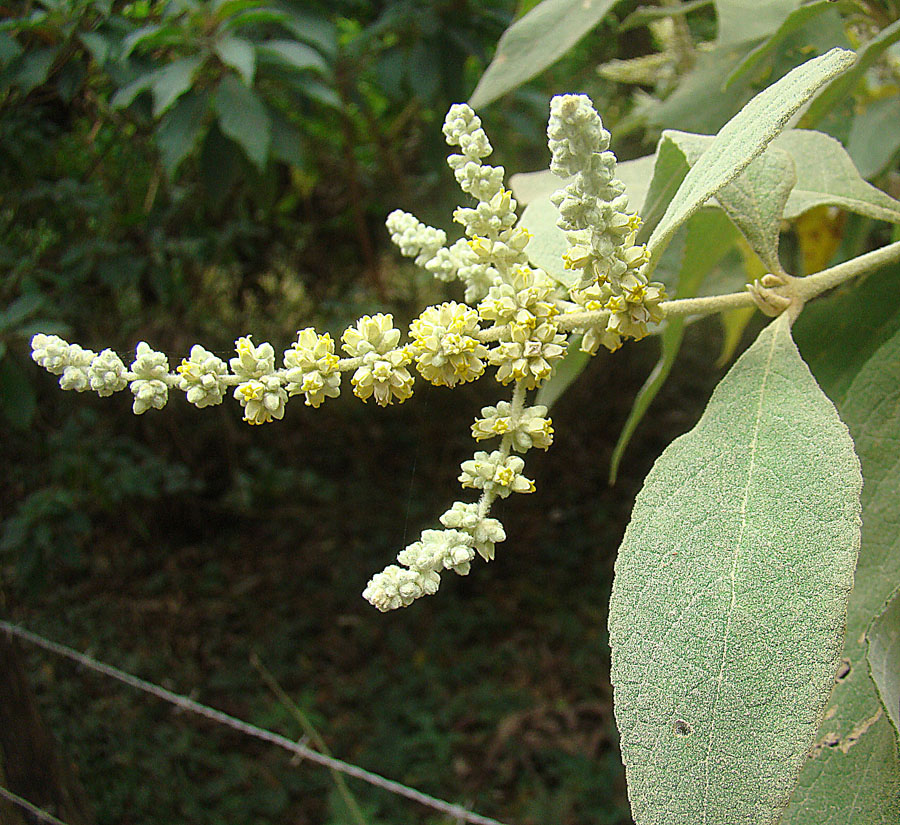 Buddleja americana — a medicinal plant found in the Caribbean and western Central American Neotropics. Vernacular names include Salvia Castilla and Hierba de Mosco. Photo from a herb garden in San Luis, Costa Rica. In context at